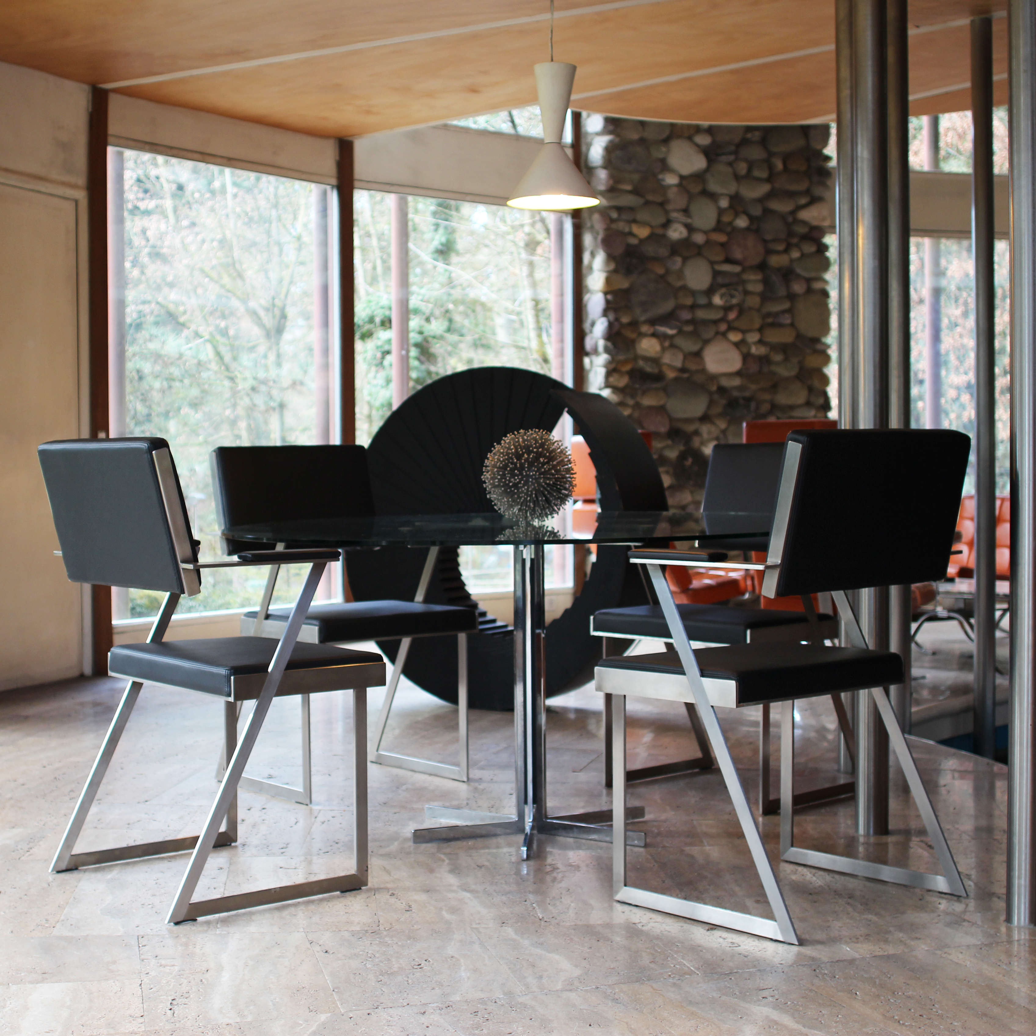 Inspired by the ambition of sublime harmony, this collection merges modernism with traditional African art.